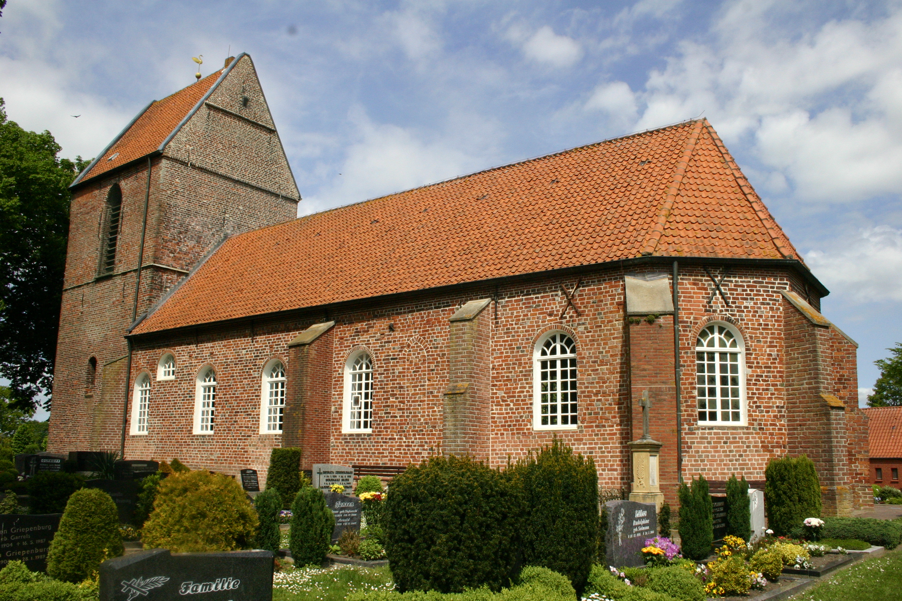 Historic Peter and Paul Church in Völlen, district of Leer, East Frisia, Germany